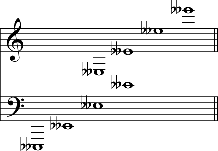 Notes, E Double Flat